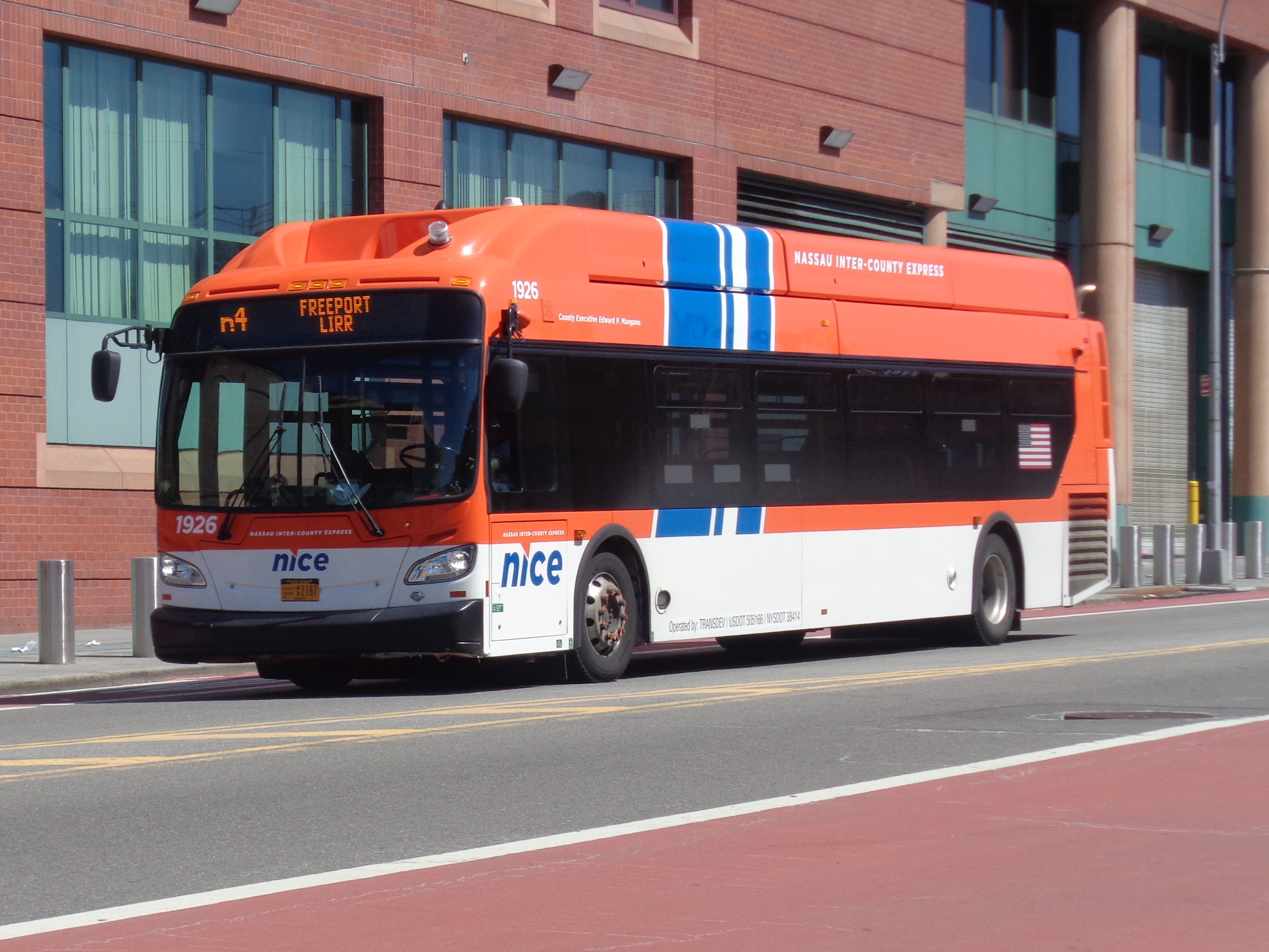 A n4 bus on the north side of Archer Avenue at the Jamaica Center Bus Terminal in Queens, about to enter service towards Freeport, Long Island.